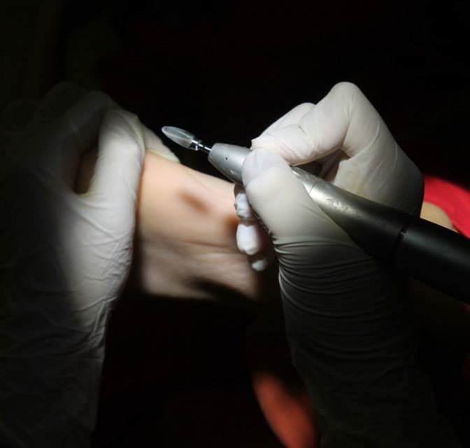 Podology: Callus rehabilitation with burr.